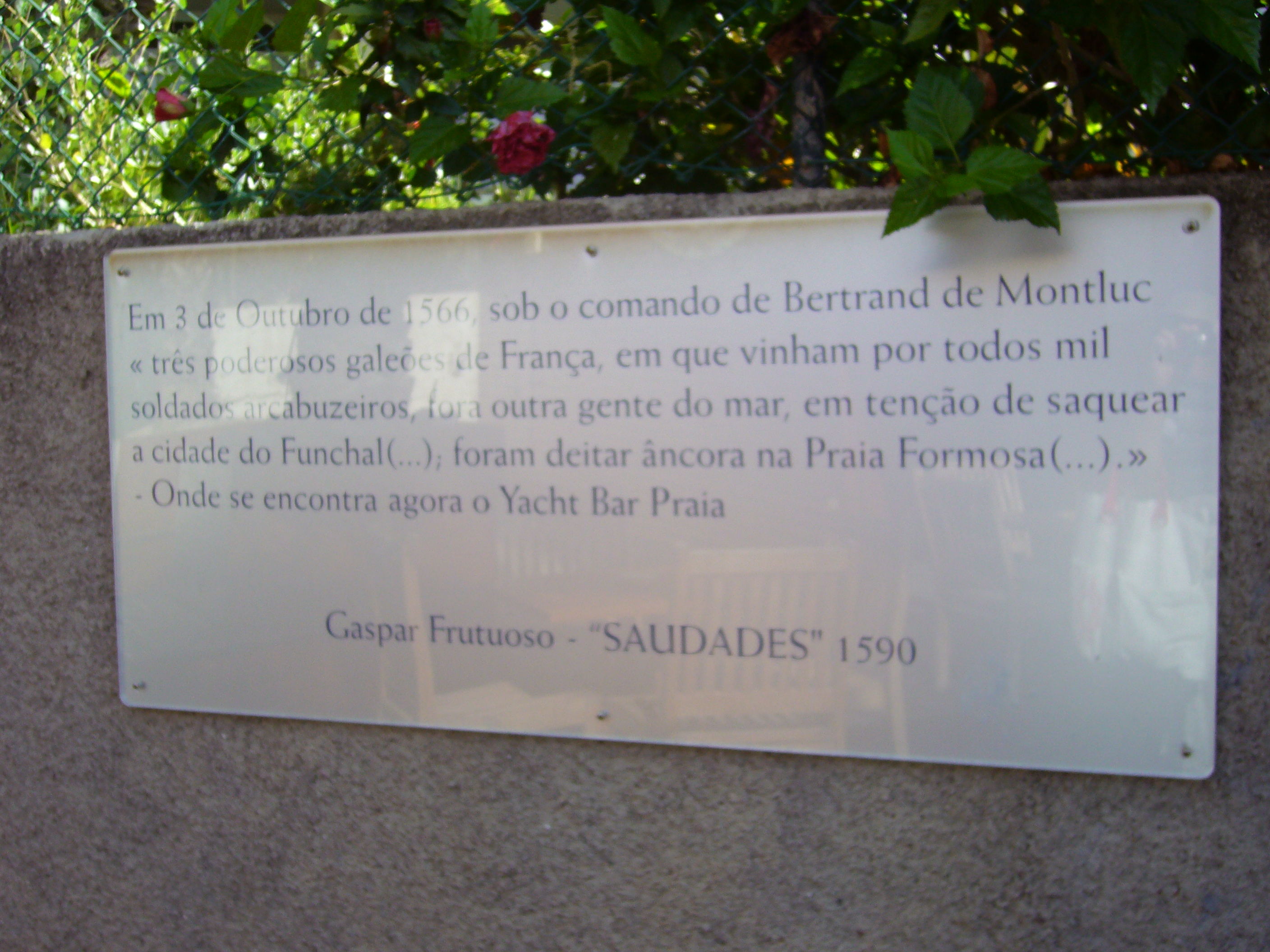 Marker at Praia Formosa in Funchal saying that at the place disembarked French pirates in 1566.